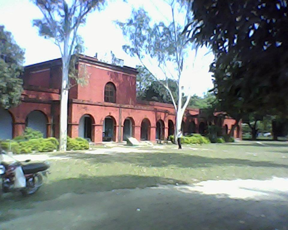 Saidpur high school's image